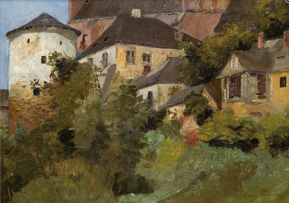 Old town of Biecz, Poland